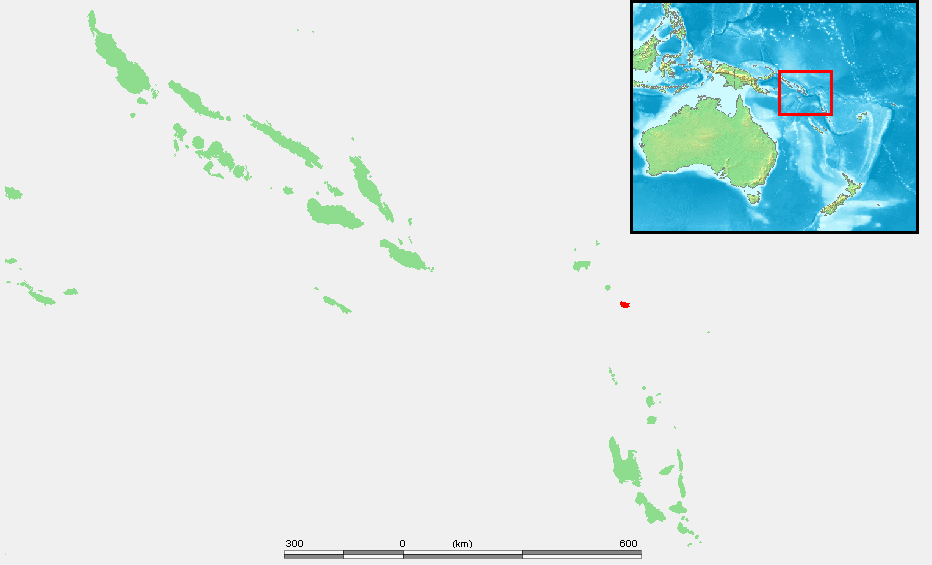 Island of Solomon Islands - Vanikoro.PNG